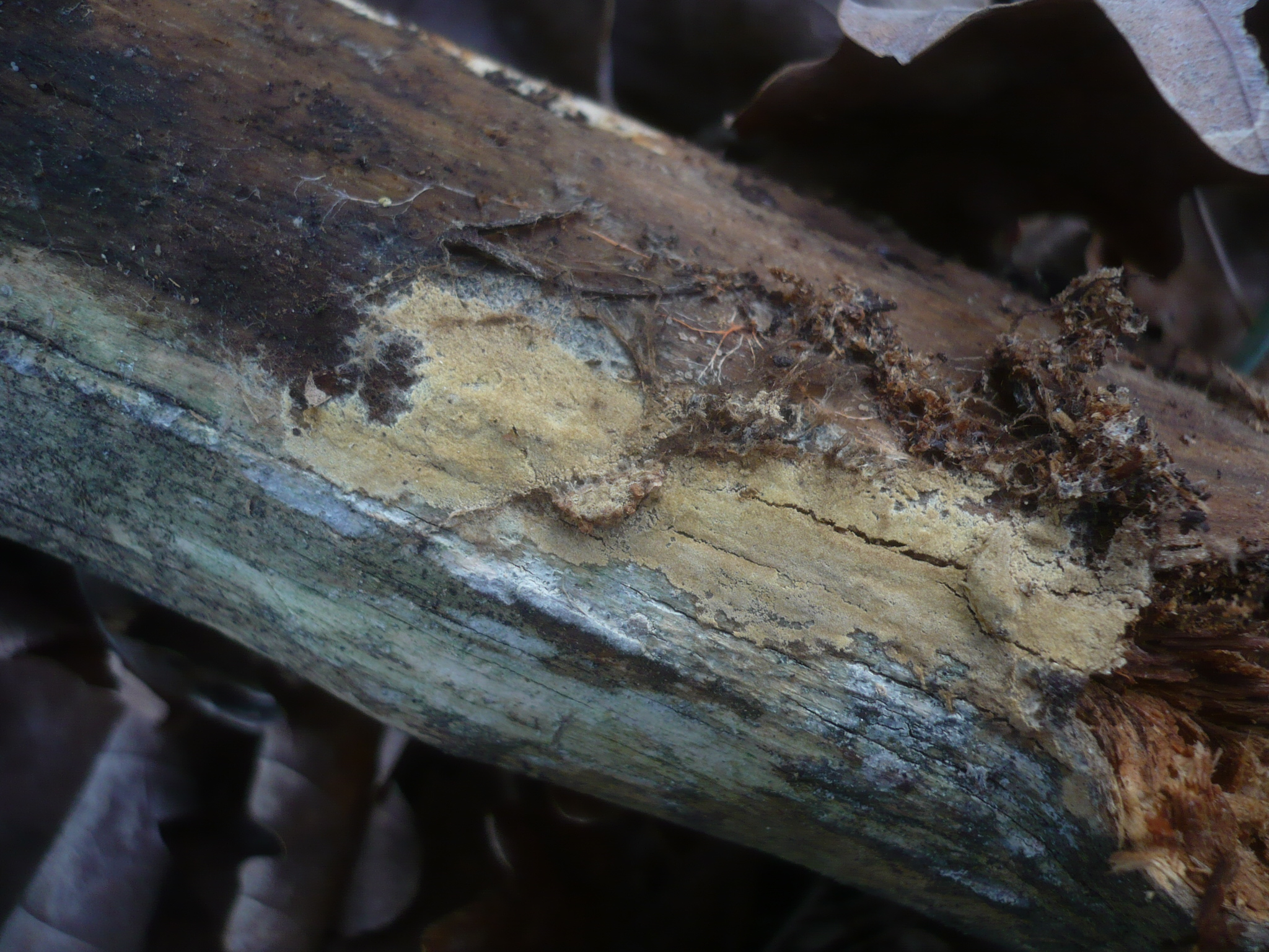 Coniophora arida Image location: Badersdorf, Bezirk Oberwart, Burgenland, Austria Recognized by sight: on pine Used references Based on microscopic features For more information about this, see the observation page at Mushroom Observer.